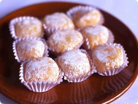 yemas de santa teresa o de avila